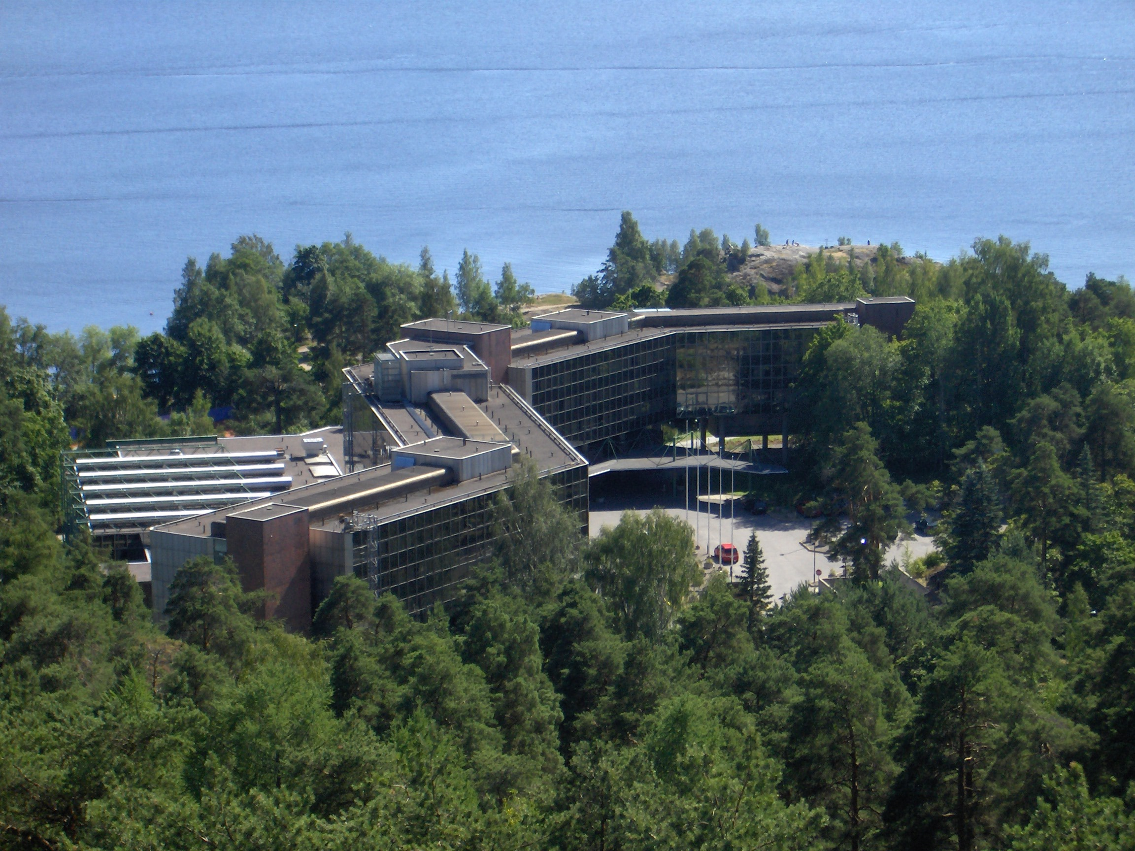 Scandic Rosendahl hotel in Tampere